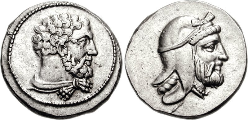 CILICIA, Soloi. Uncertain satrap. Circa 380-333 BC. AR Stater (10.14 g, 12h). Bearded head of Herakles right, lion's skin tied around neck / Head of satrap right, wearing Persian headdress.